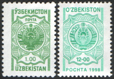 Stamp of Uzbekistan 1995 and 1998. Author - Post of Uzbekistan.